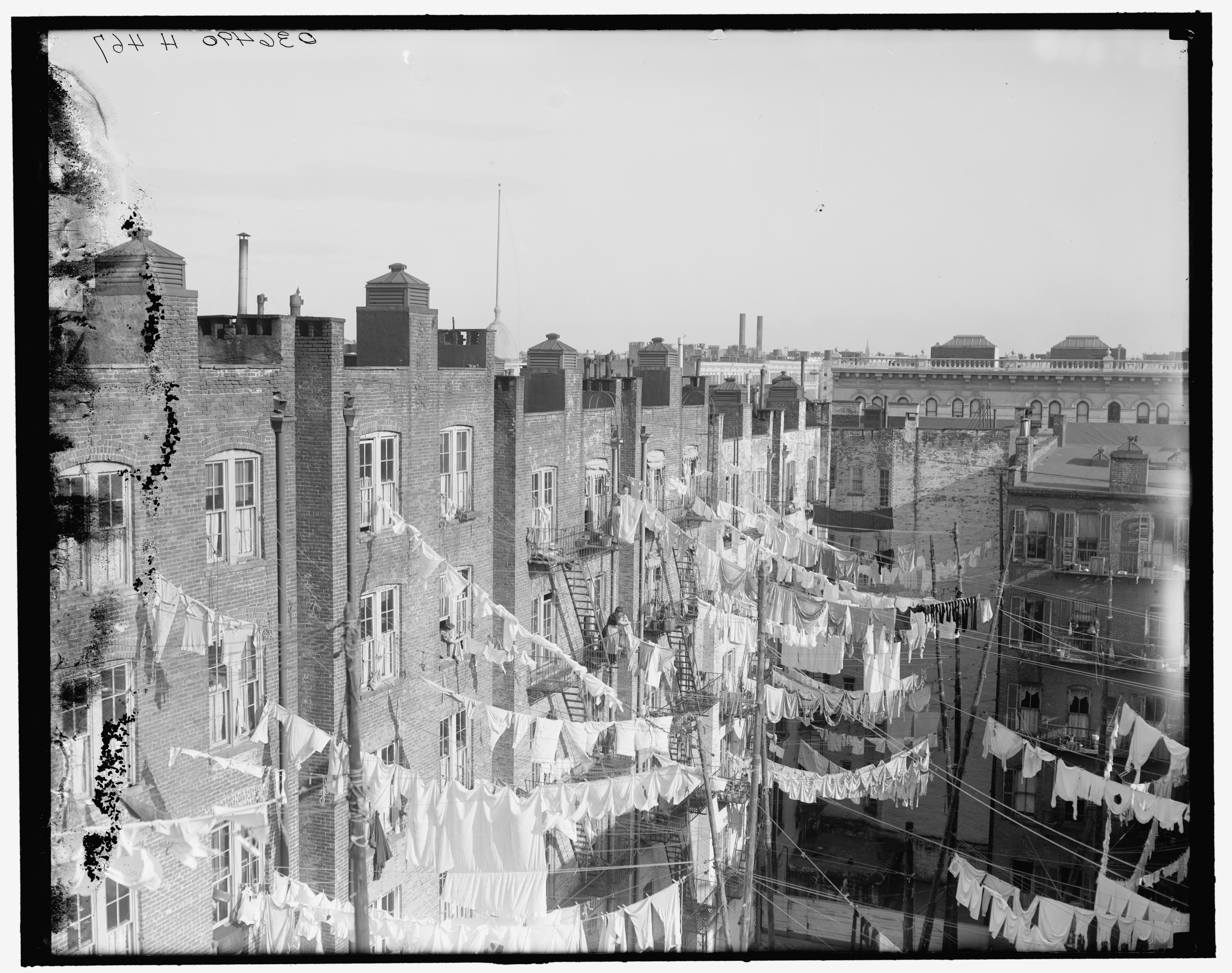 New York, N.Y., yard of tenement